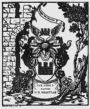 G. I. Narbut. The arms of Nikolay Wrangell